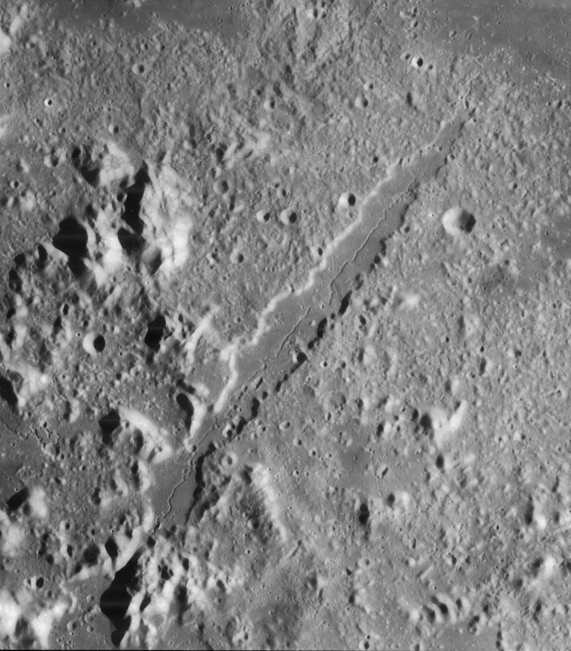 Vallis Alpes, on the moon.